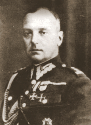 Klemens Rudnicki (1897 - 1992) - General of the Polish Army.